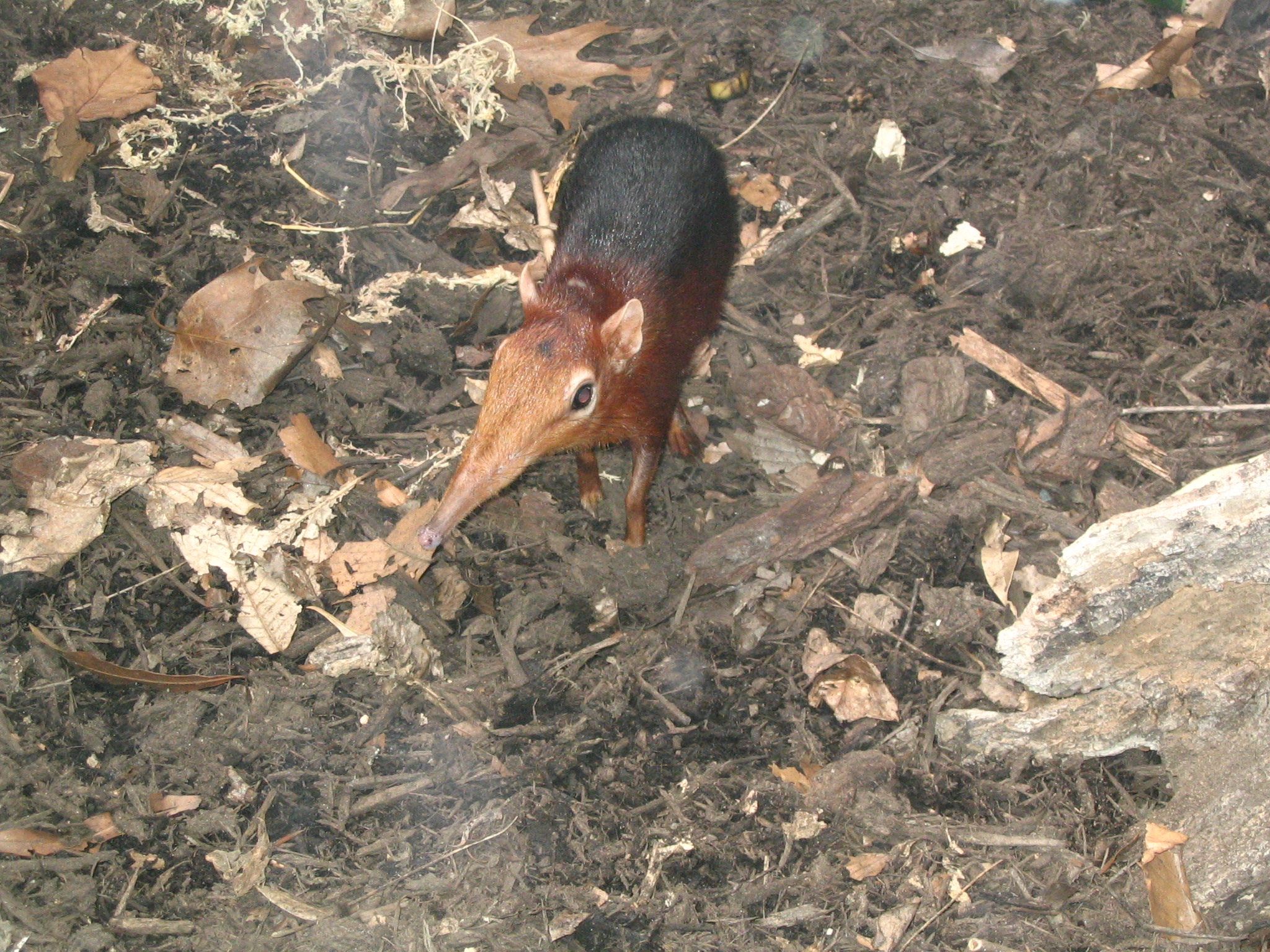 A picture of a male Black and Rufous Elephant Shrew at the National Zoo. The Elephant shrew is part of the small mammals exhibit at the zoo.